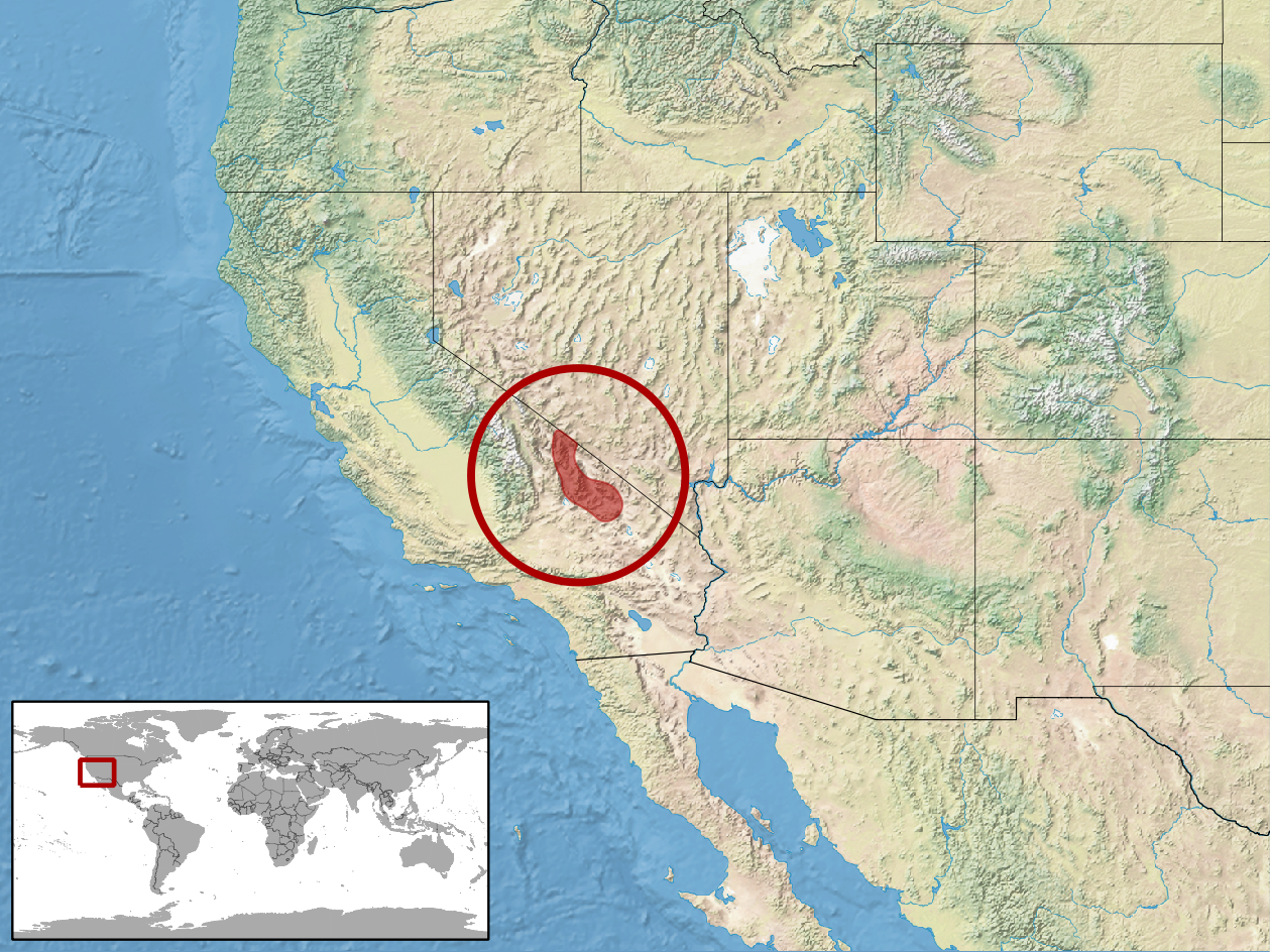 geographic distribution of Elgaria panamintina (Native: United States (California))